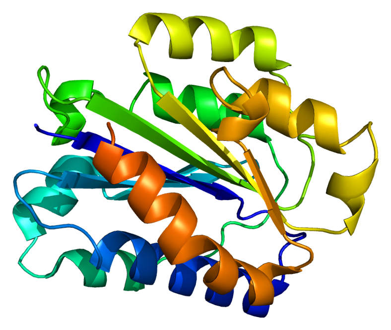 Structure of the ITGAX protein. Based on PyMOL rendering of PDB 1n3y.